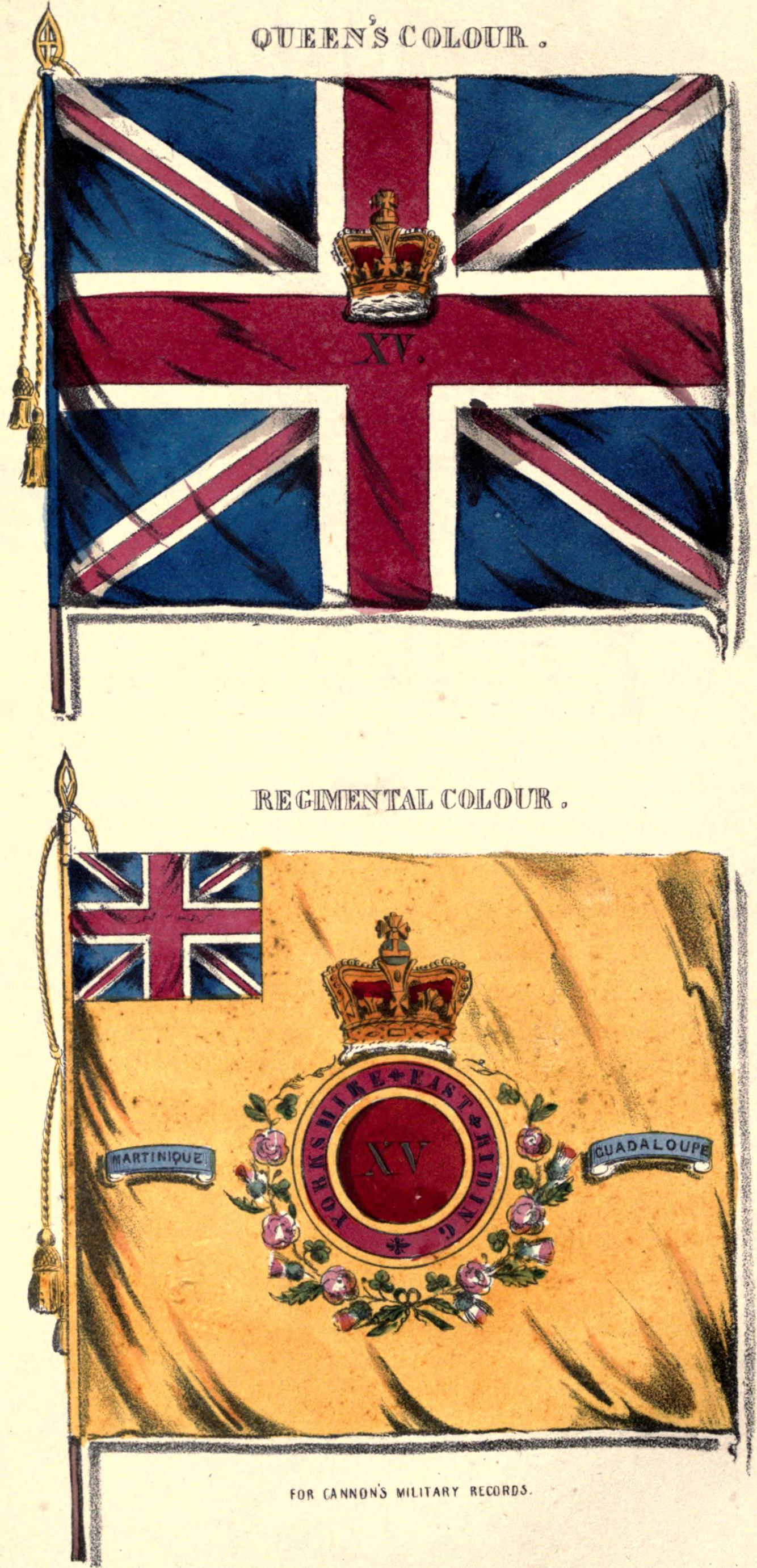 Colours of the 15th Foot.